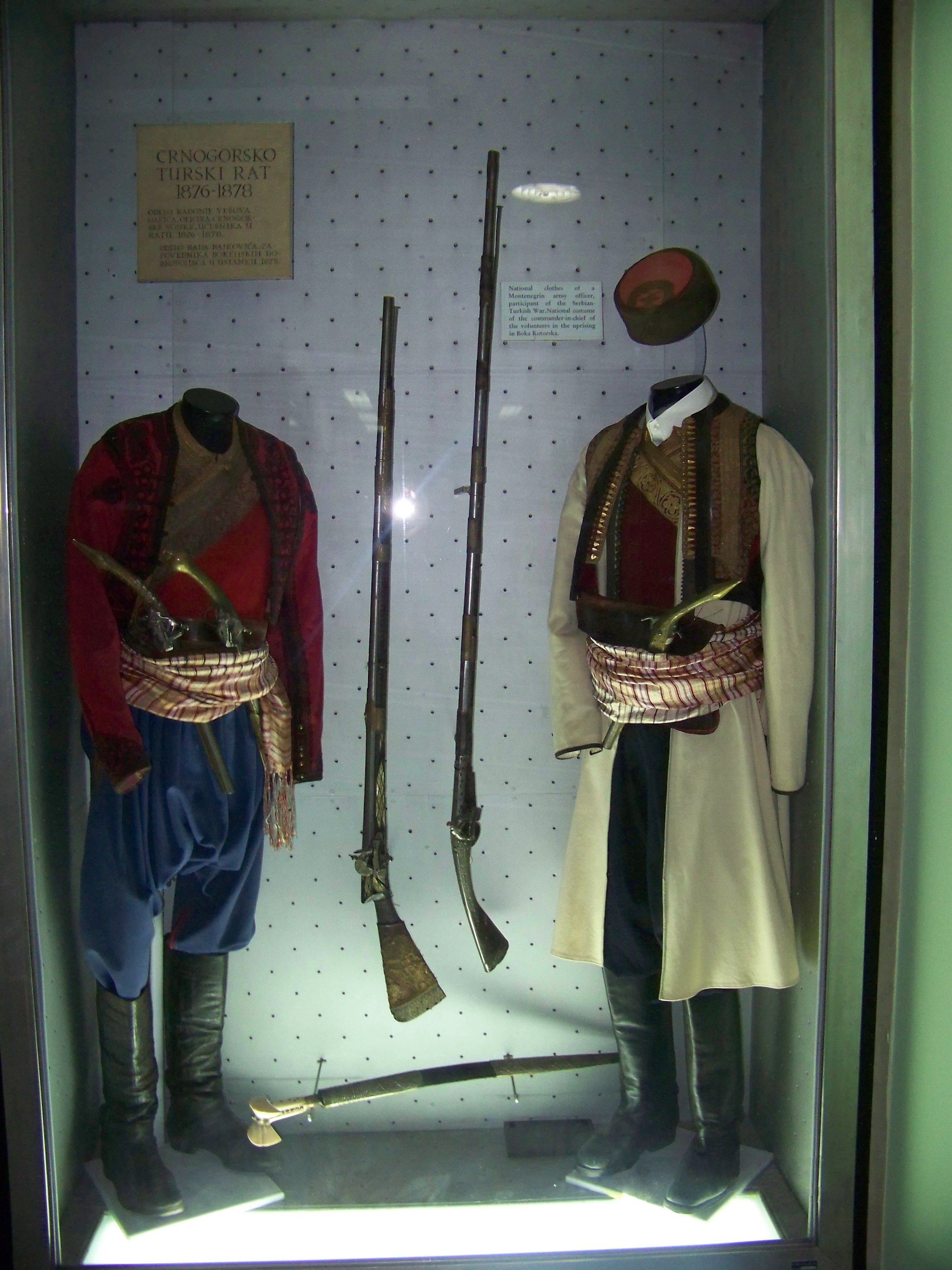 Attire of Montenegrin soldiers, 1875-1878 war